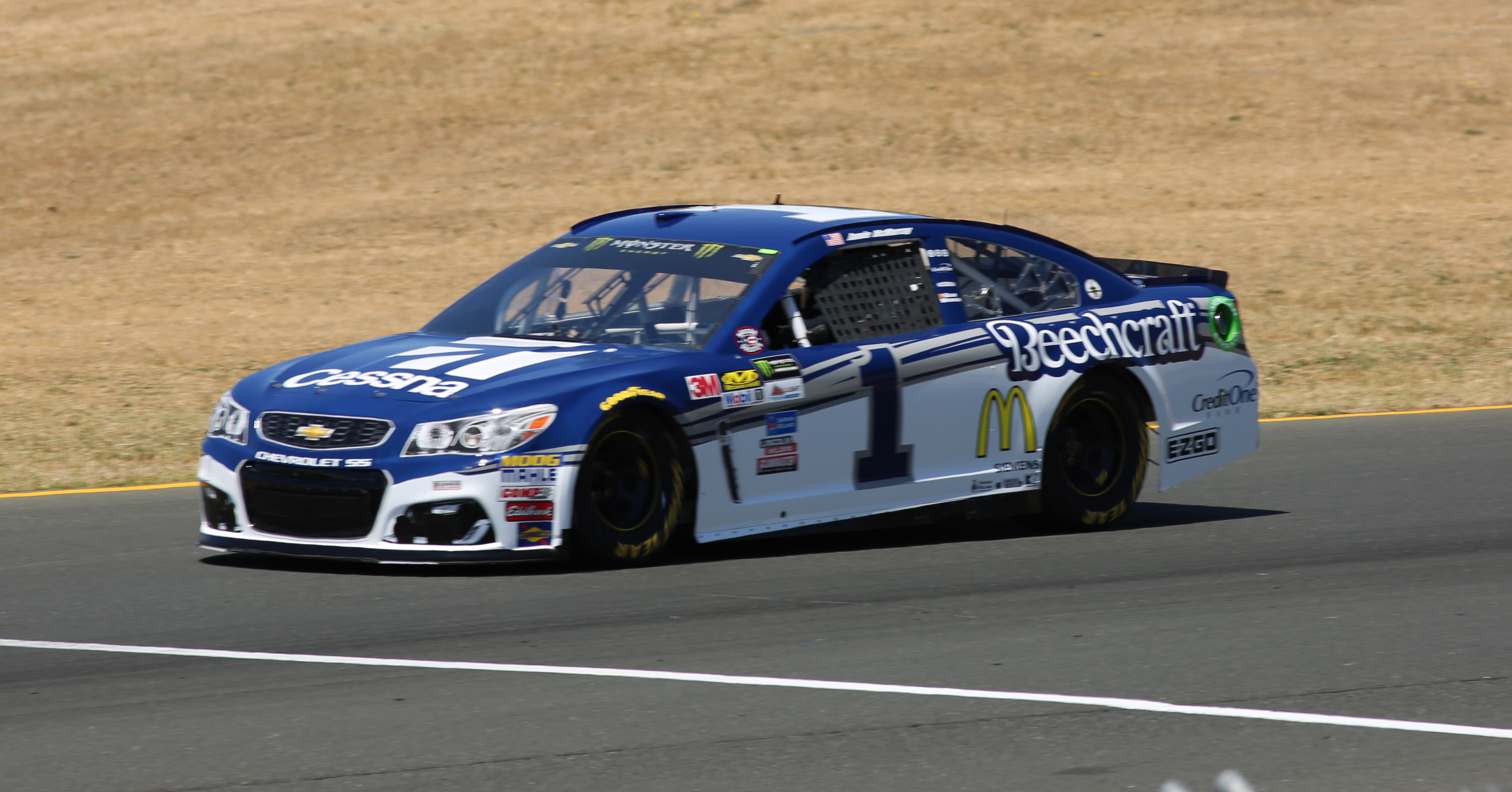 Jamie McMurray's No. 1 Cessna/Beechcraft Chevrolet at Sonoma Raceway in 2017